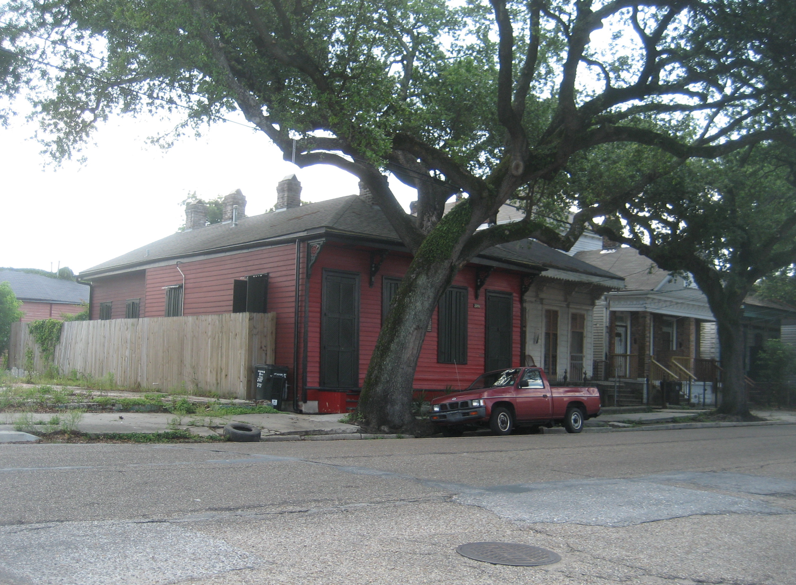 New Orleans. Kid Ory house on Jackson Avenue.